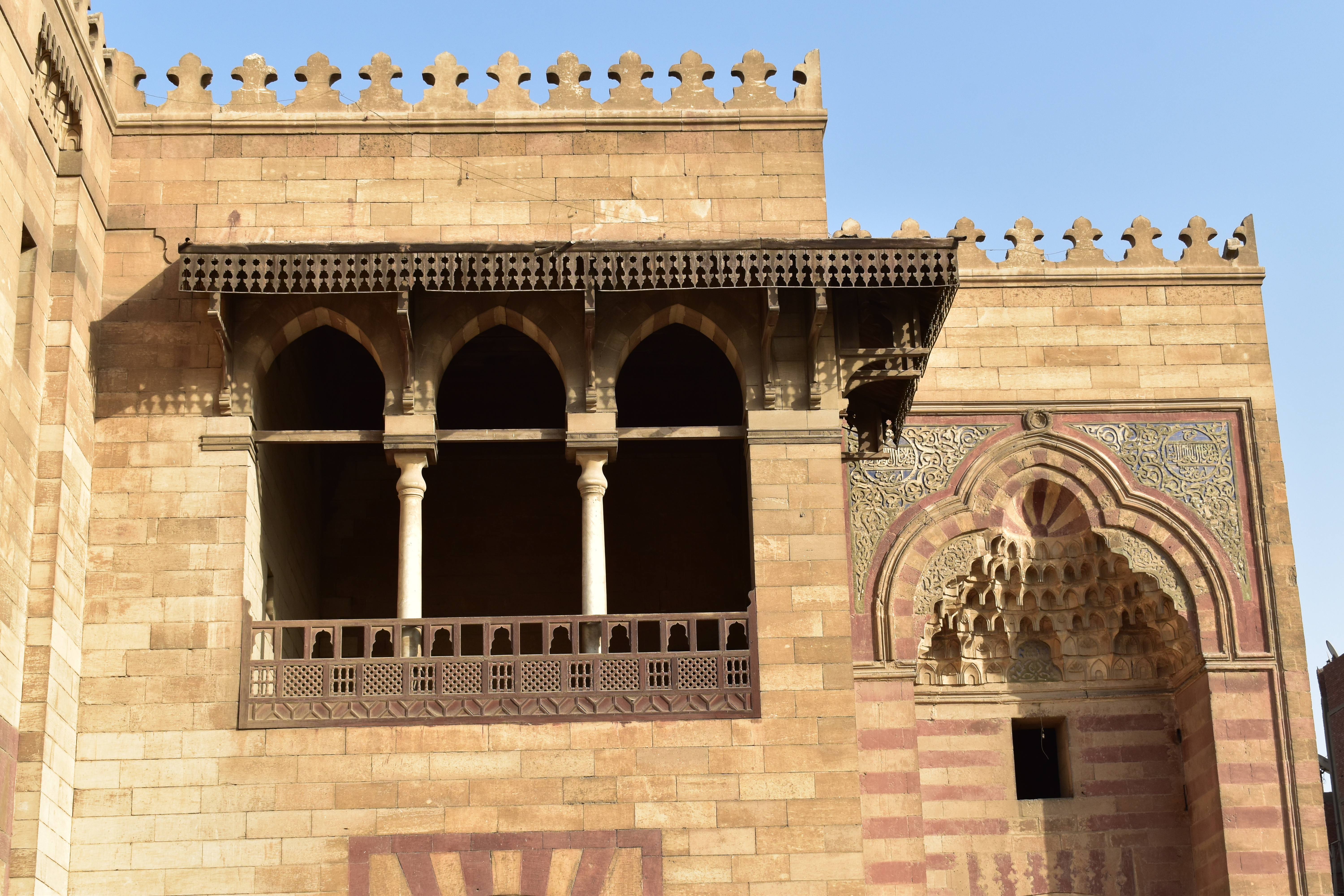 Khanqah of Farag ibn Barquq, photo by Hatem Moushir